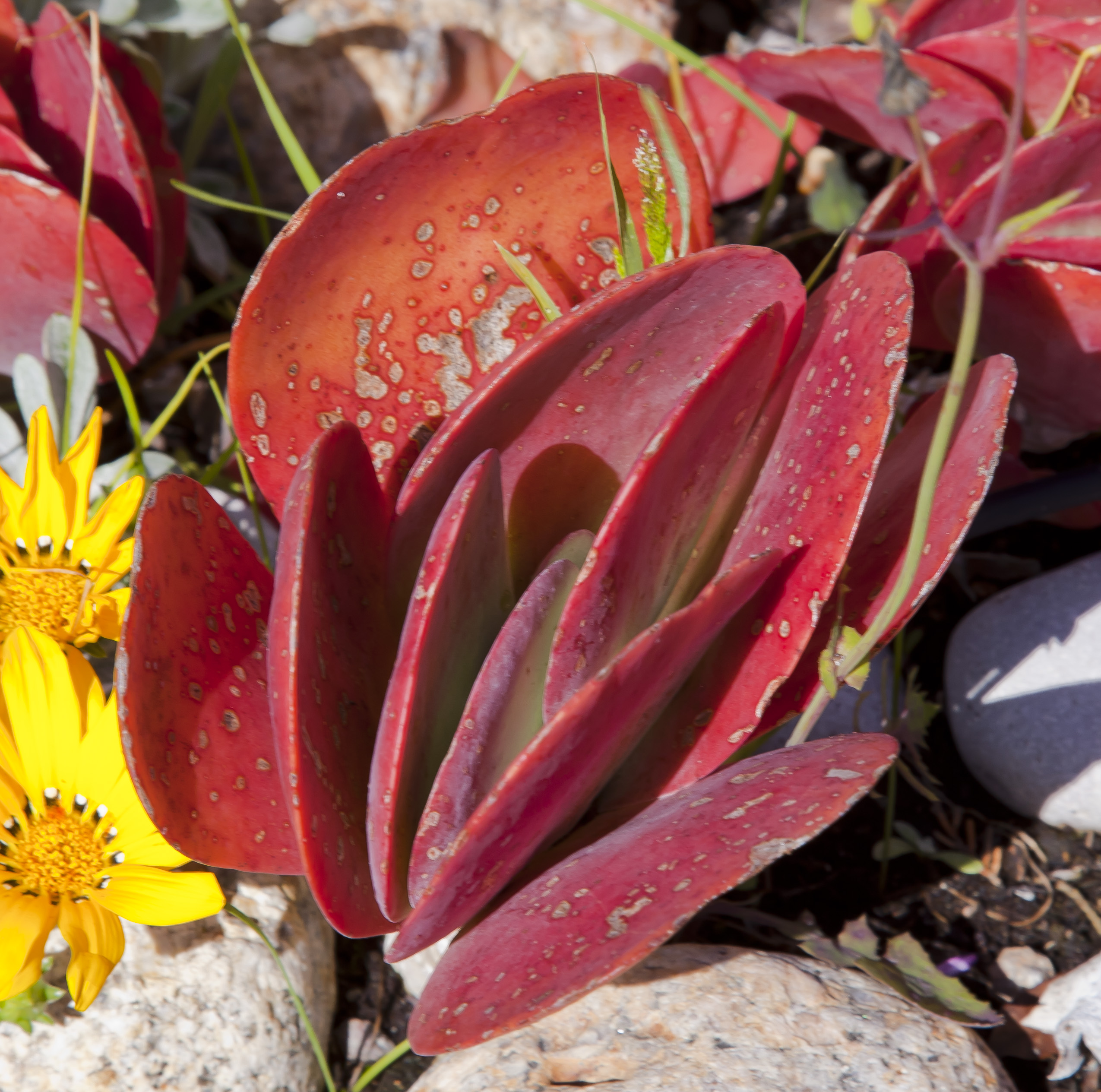 Kalanchoe (Kalanchoe thyrsiflora), mill garden, Sierra of Saint Philip, Setubal, Portugal